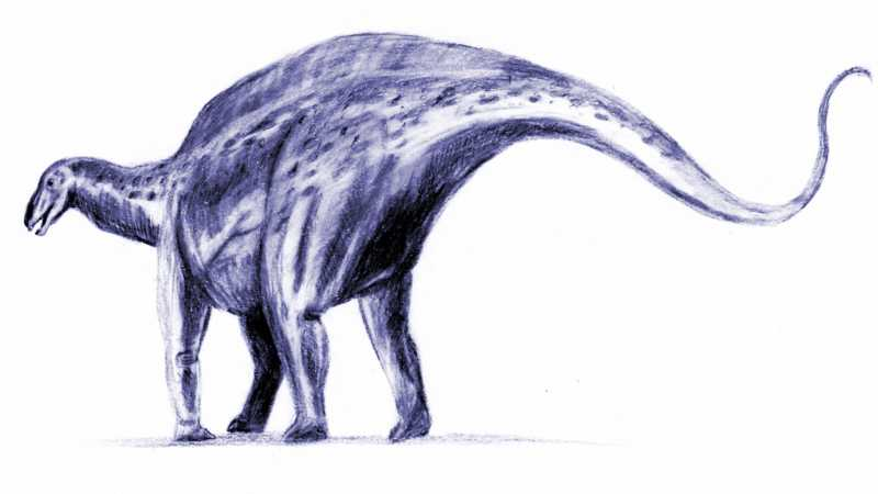 Brachytrachelopan, pencil drawing Author:User:ArthurWeasley